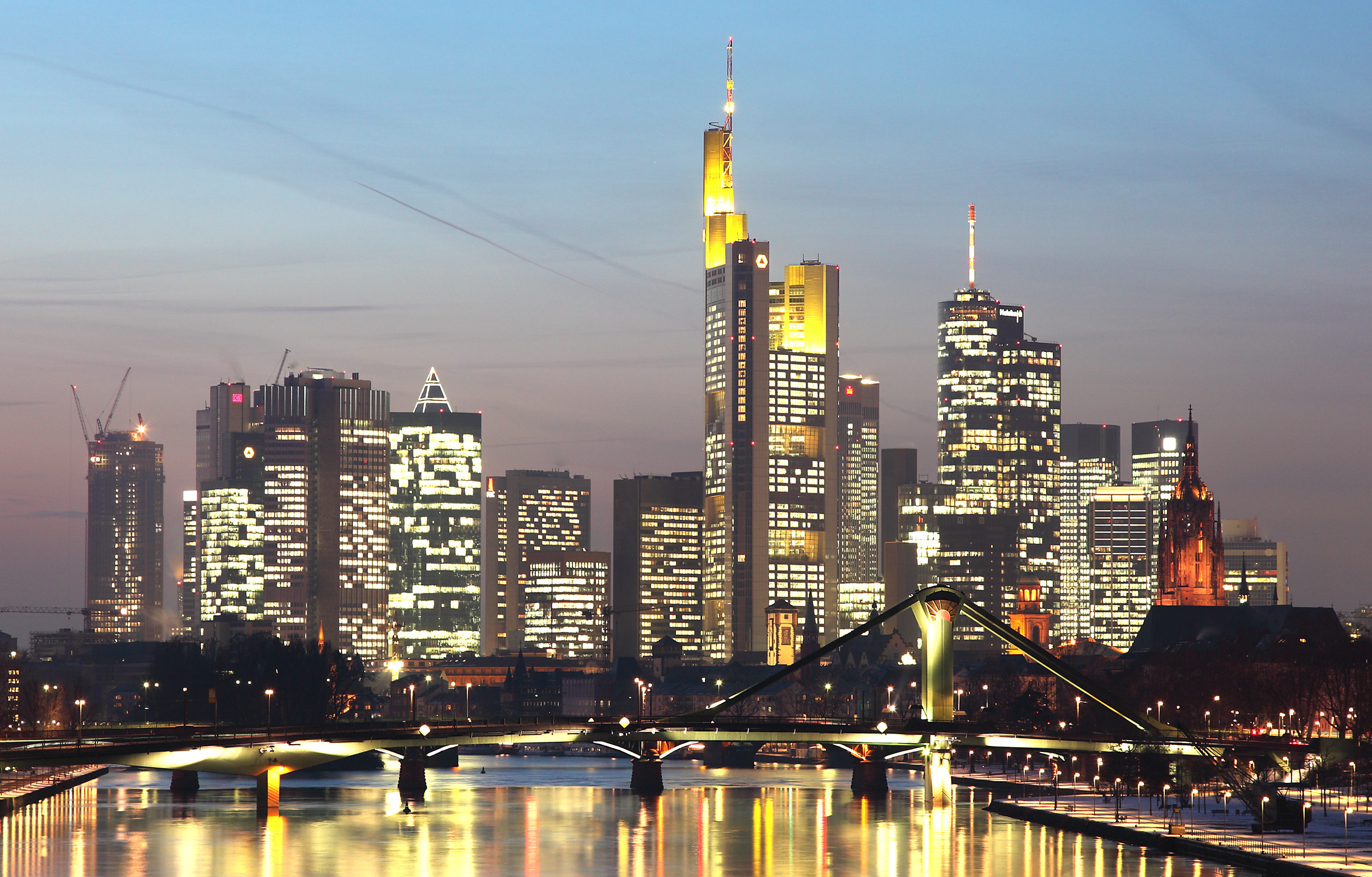 Skyline of Frankfurt am Main, Germany